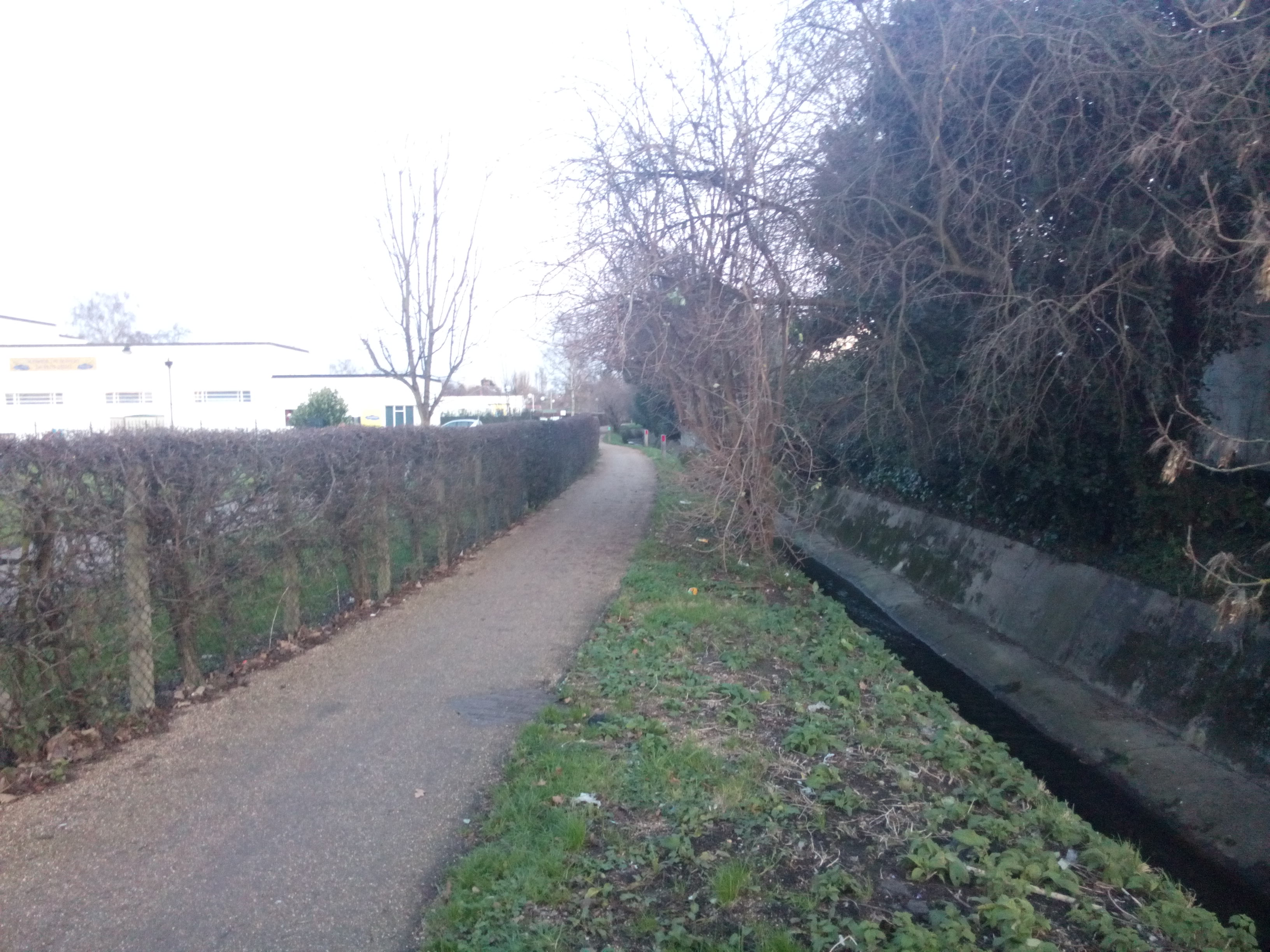 Cycle and walking route along Prittle Brook in Southend on Sea